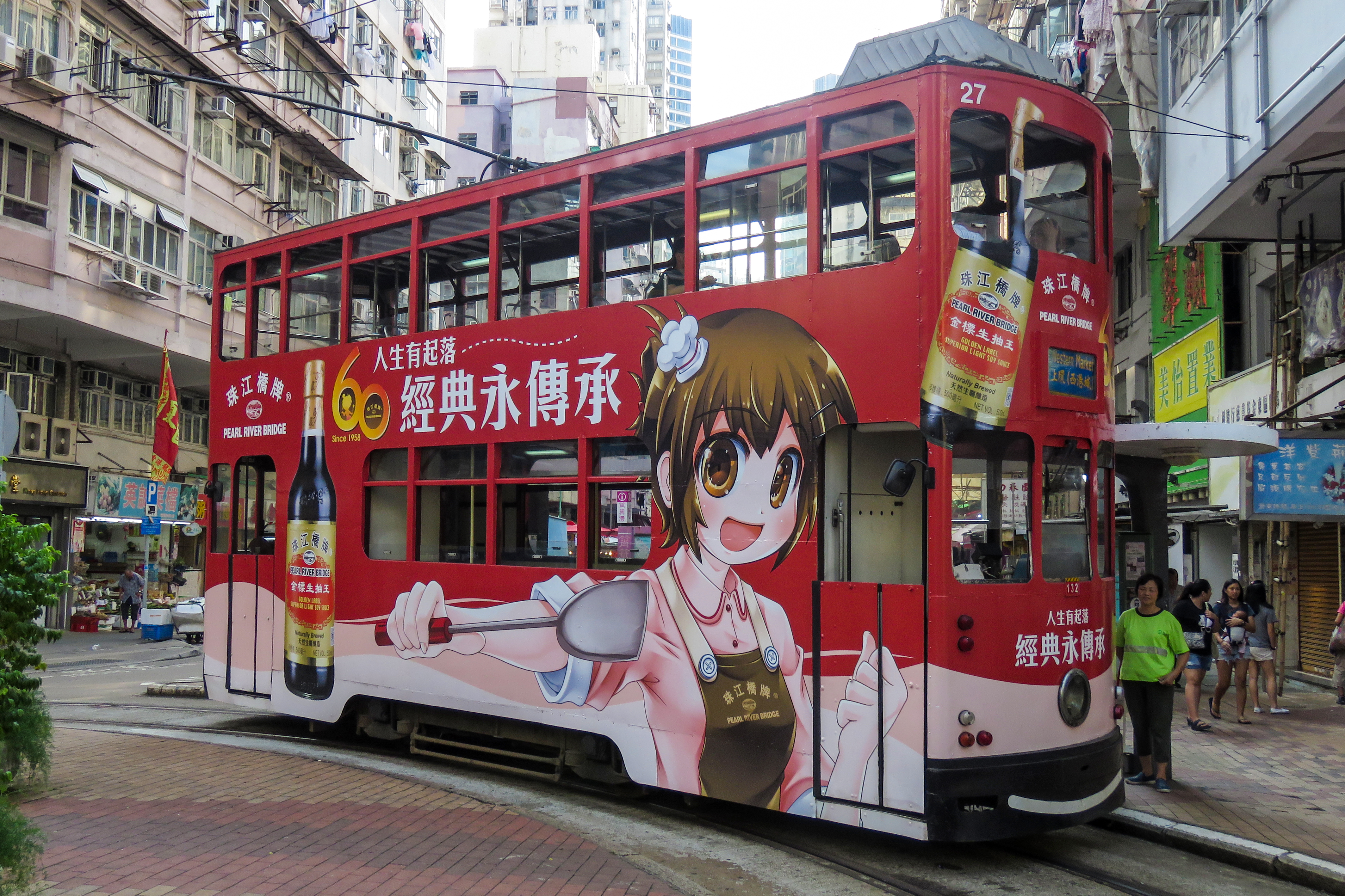 Today's surprise is not just 88... "Pearl River Bridge" came behind! After all, I've spotted at the west bridge twice.